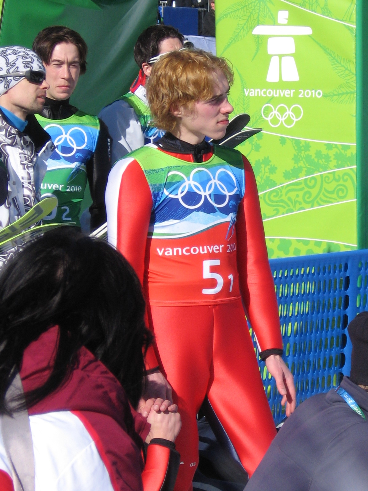 Czech ski jumper Antonín Hájek (born 1987) at the 2010 Winter Olympics in Vancouver